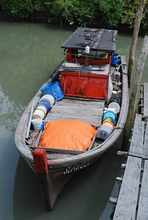 A diesel powered boat. During my half day trip to Pulau Ketam, I can see most of the boats were docked at their respective jetty.